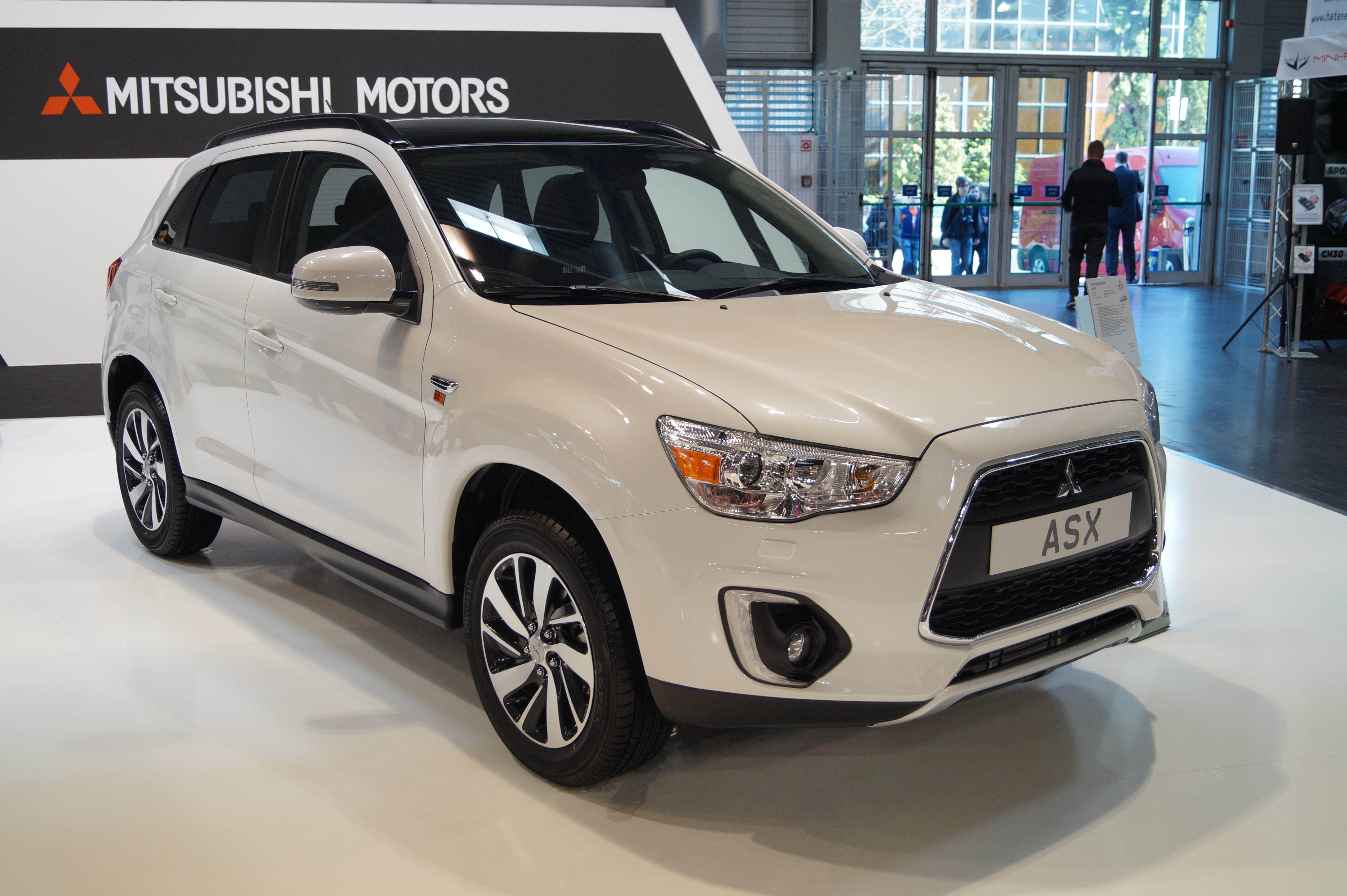 The making of this document was supported by Wikimedia Polska Association, within Wikigrant no. WG 2015-19. English | polski | +/− Mitsubishi ASX na Motor Show Poznań 2015